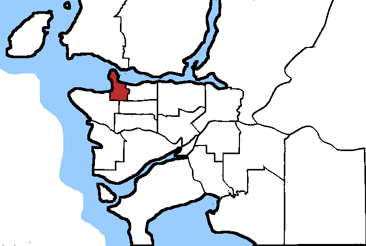 Map of the Vancouver Centre electoral district. Based on Earl Andrew's maps, created by SimonP.